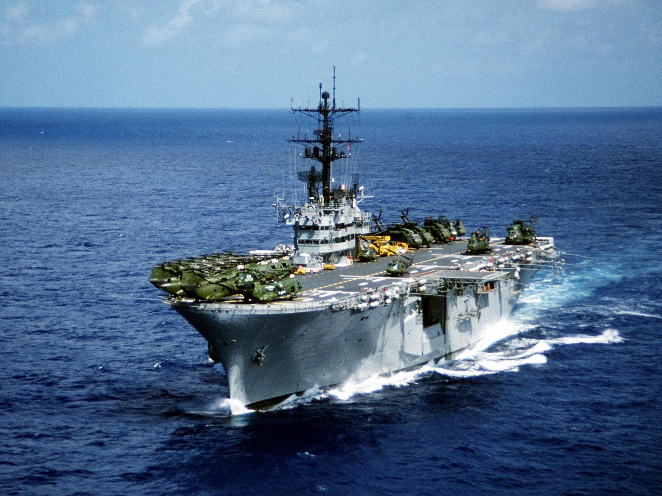 A port bow view of the amphibious assault ship USS IWO JIMA (LPH-2) underway to New York City for a Bob Hope show. The ship and crew has just completed a field exercise in Puerto Rico.